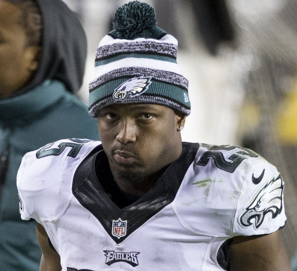 Philadelphia Eagles running back, LeSean McCoy, after a loss to the Washington Redskins on December 20, 2014.